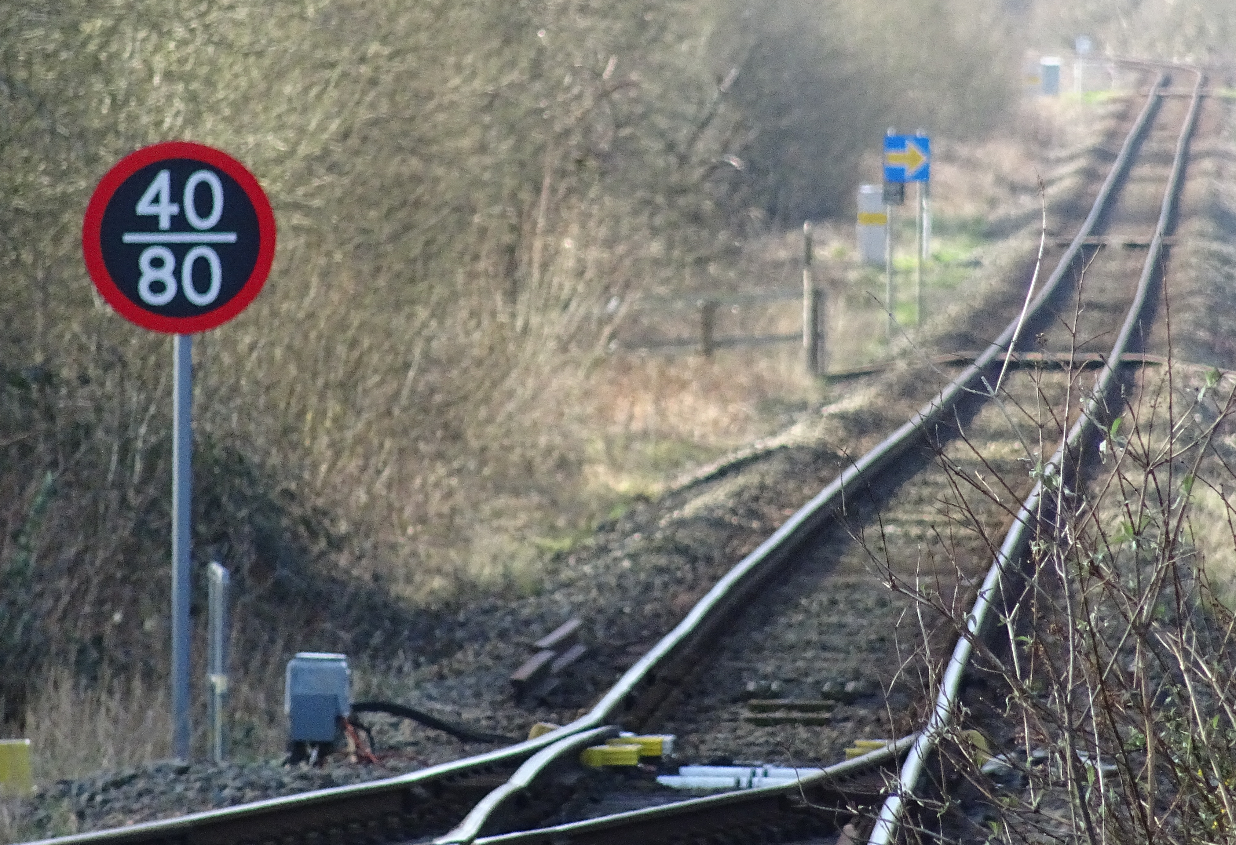 To the west of Machynlleth station in February 2018 showing different speed limits, in kilometres per hour, for locomotives and multiple units. The subject is to the side to allow the location to be recognised taking advice from a Sony camera ('Position a subject off-center' to include other elements of the scene to create a more interesting shot).